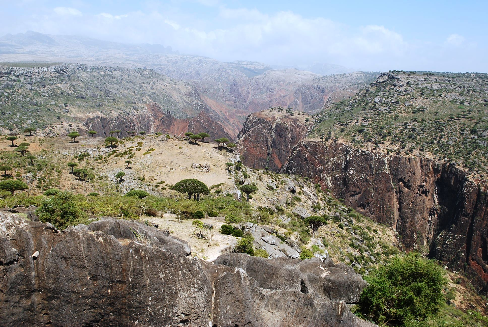 tree island canyon yemen dragonblood socotra soqotra dixam